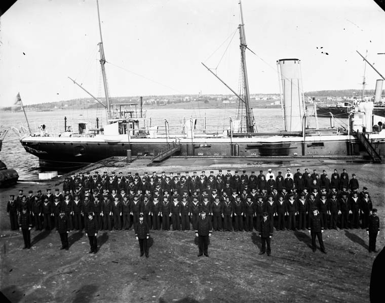 Photograph of officers and crew of British torpedo cruiser HMS Mohawk, of the North America and West Indies Squadron, at Halifax, Nova Scotia, Canada.